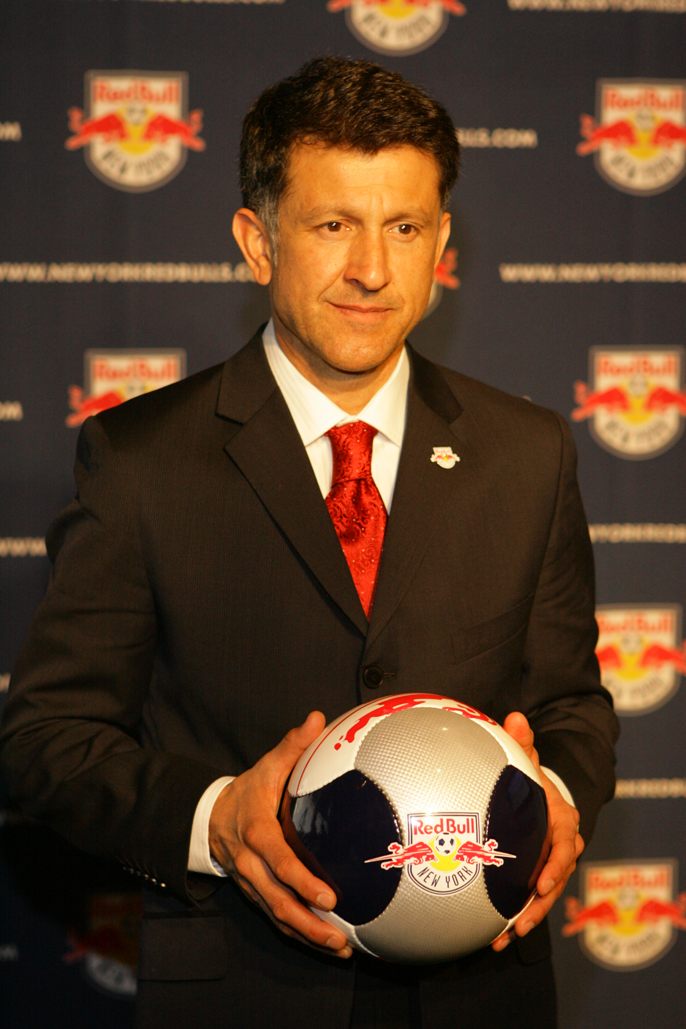 Juan Carlos Osorio, New York Red Bulls Coach